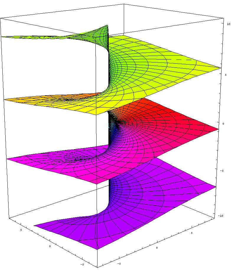 riemann surface of Log[z], projection from 4dim C x C to 3dim C x Im(C), color is argument